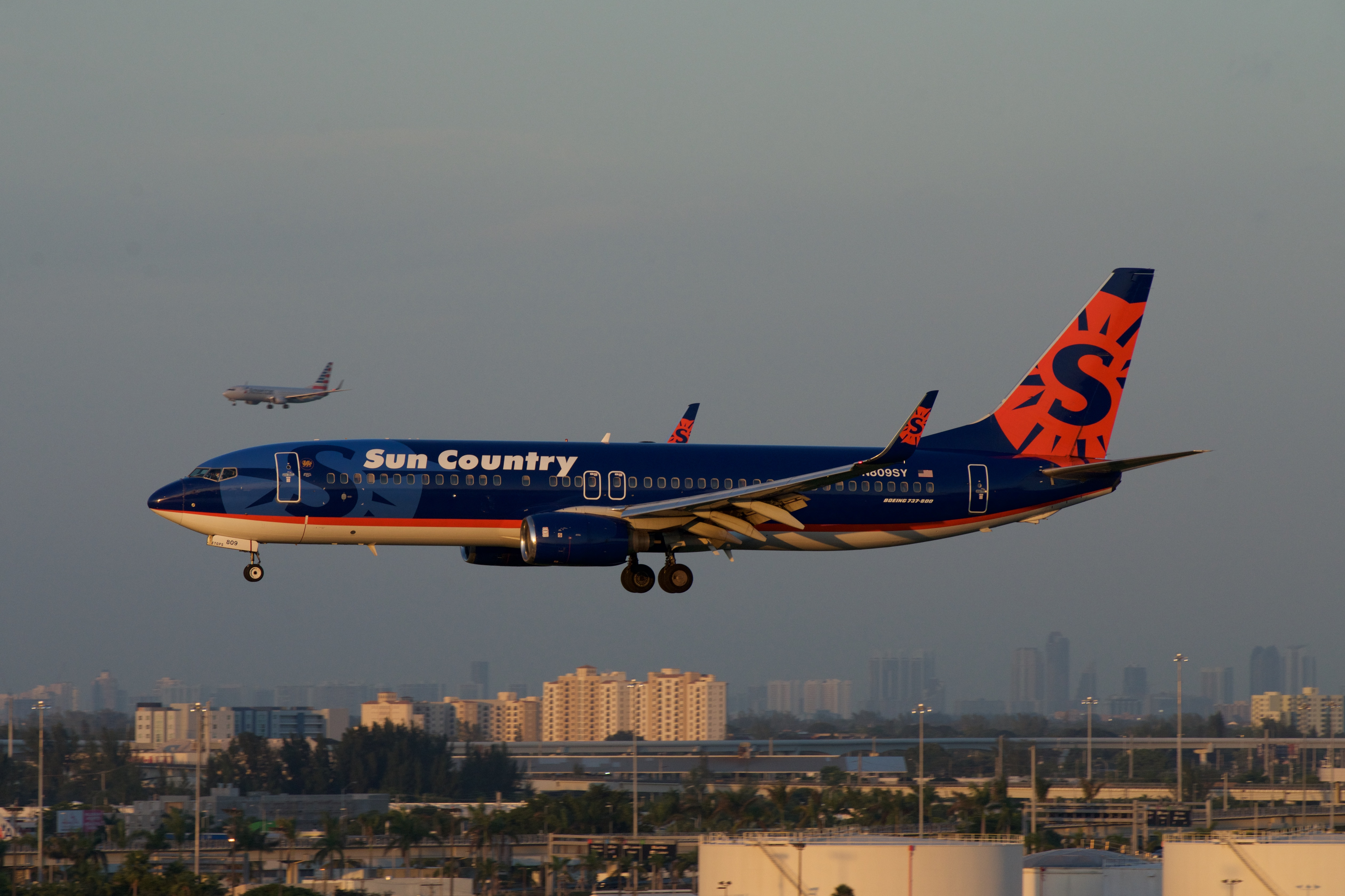 Short Final, MIA